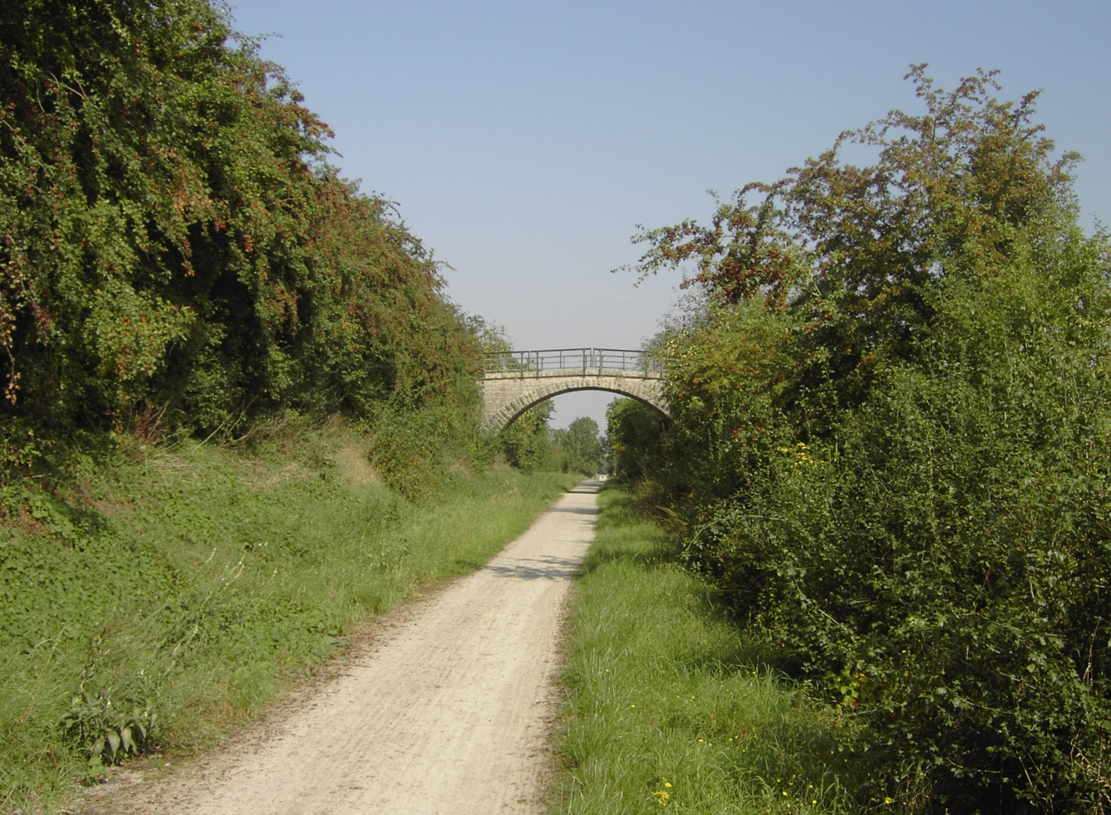 Former route of the Gaubahn Ochsenfurt - Weikersheim, today used as a cycle track.